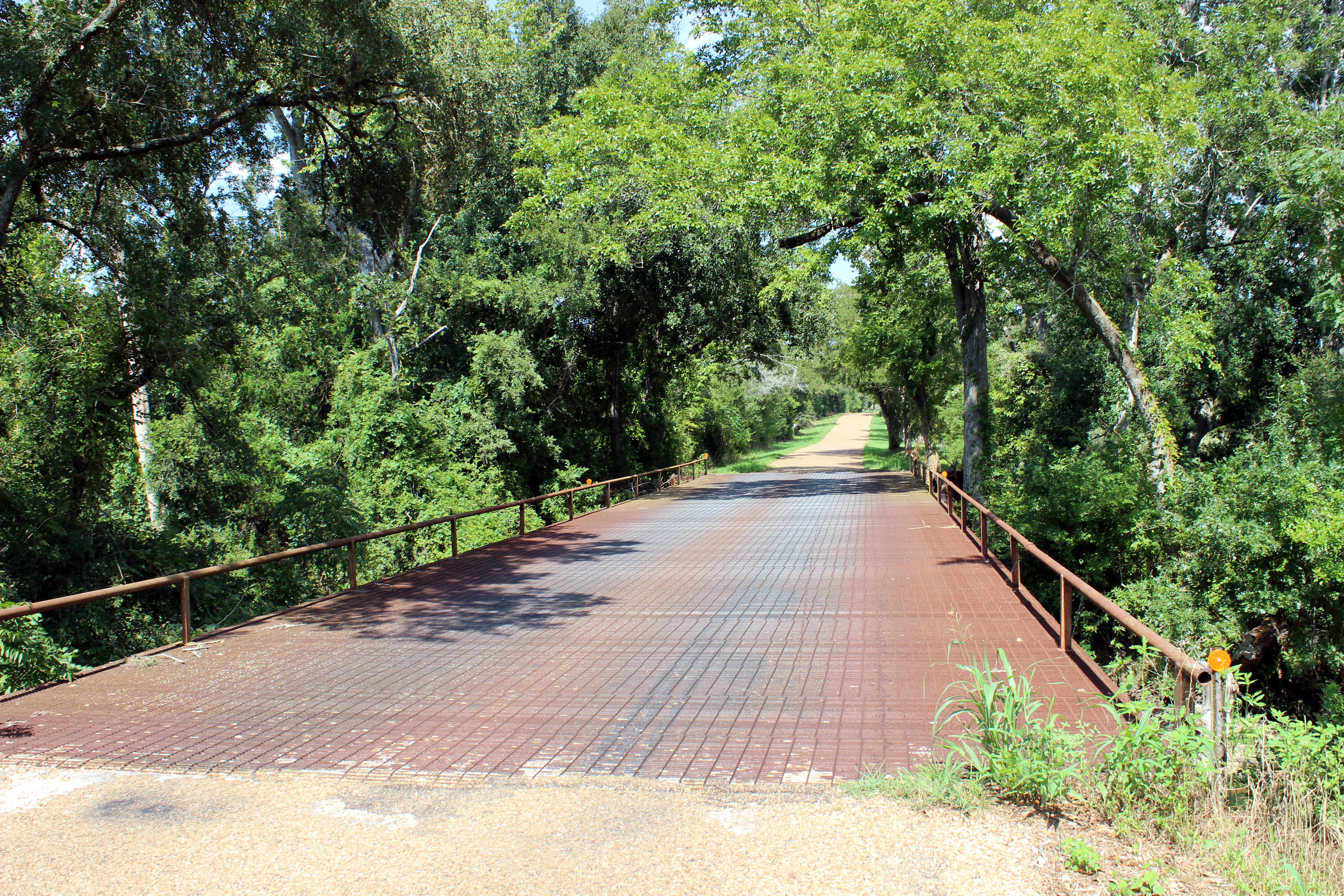 Cummins Creek Bridge, 2 mi (3.2 km). NW of Round Top over Cummins Creek Round Top. This is the replacement bridge, built in 1996. The original bridge is no longer extant.